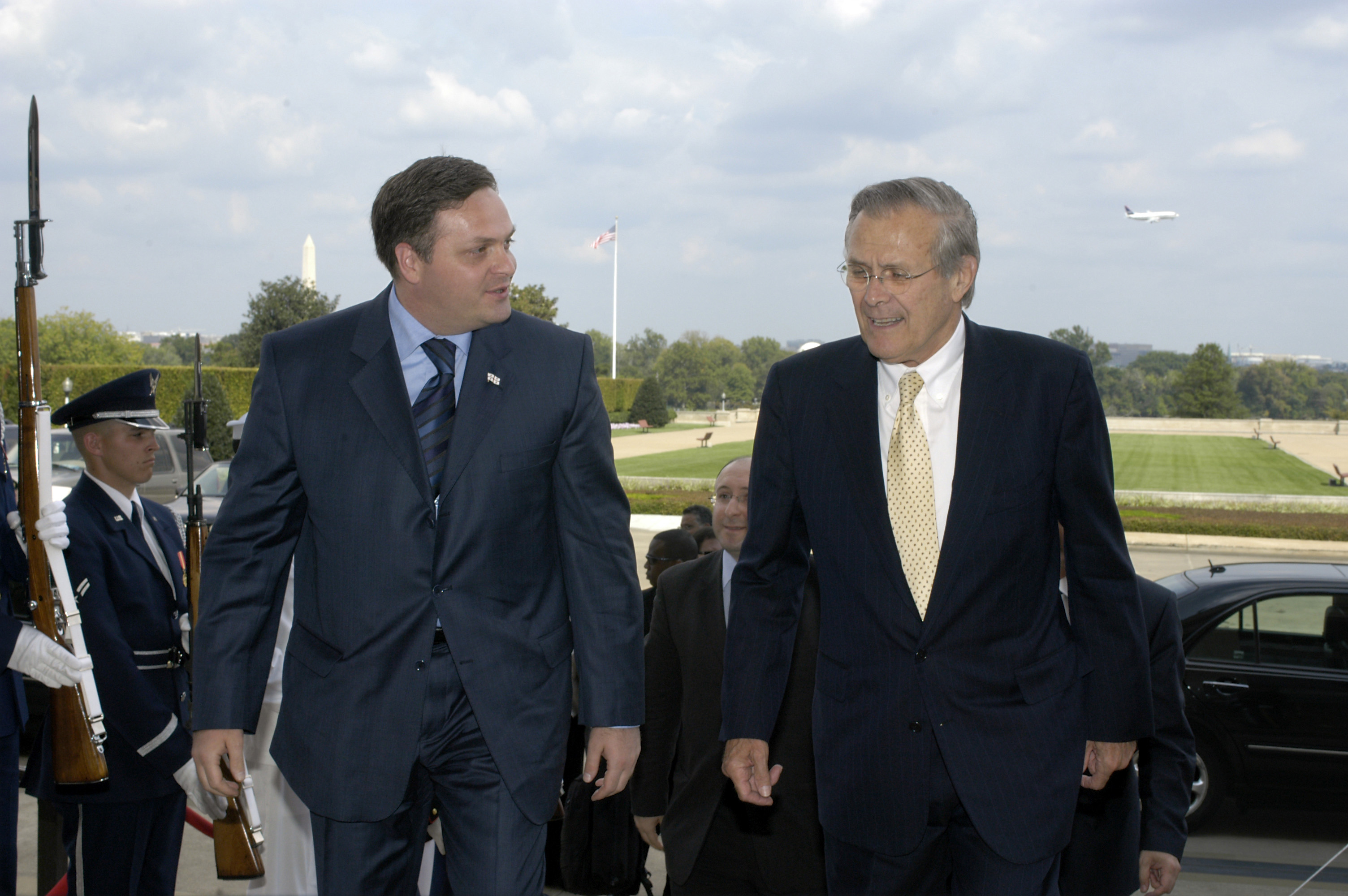 Minister of Defense of the Republic of Georgia Giorgi Baramidze is escorted through an honor cordon and into the Pentagon by Secretary of Defense Donald Rumsfeld.